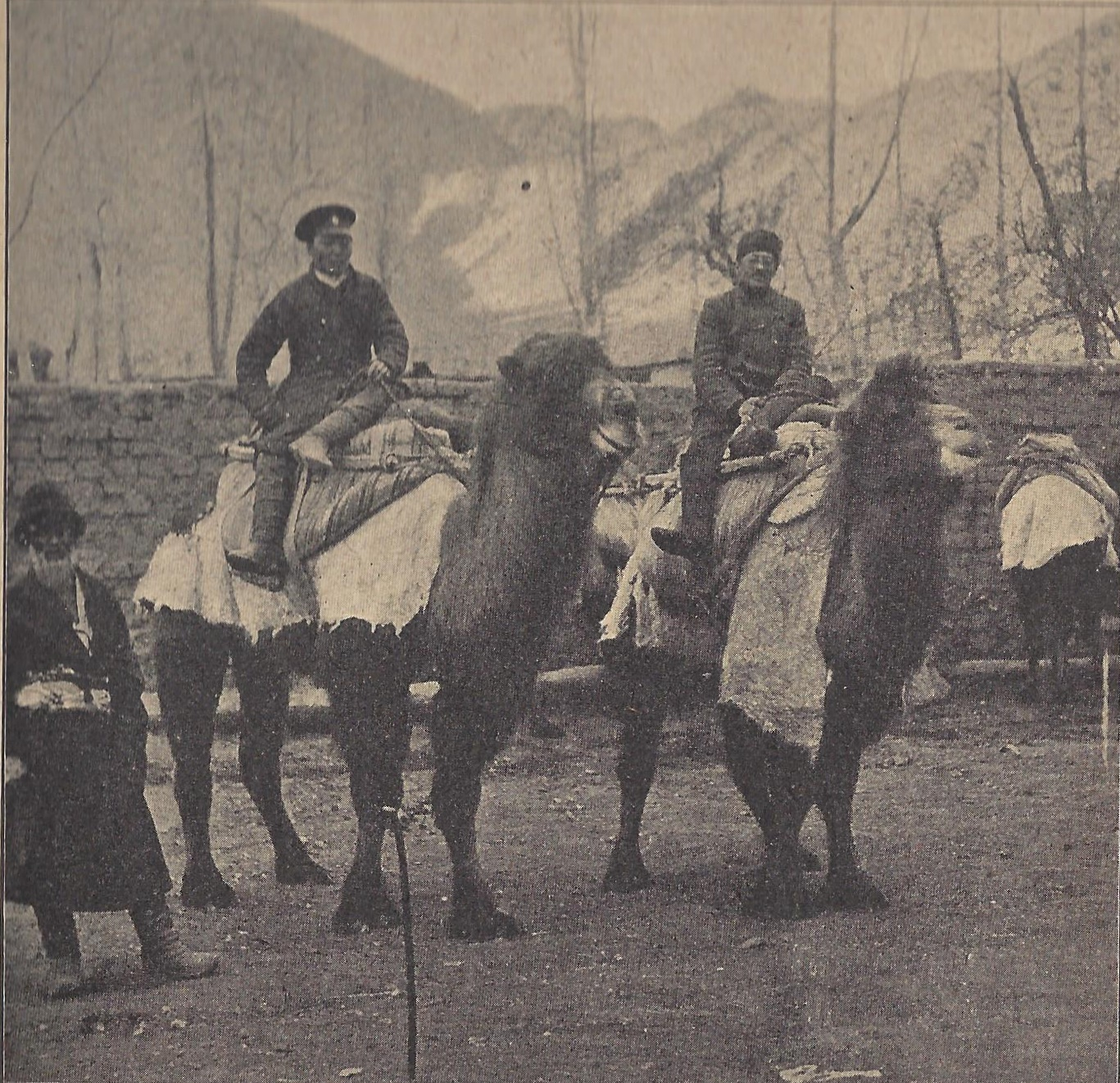 Sven Hedin on a bactrian camel with Buryat cosak and Mongolian lama during expedition in Tibet (1901).